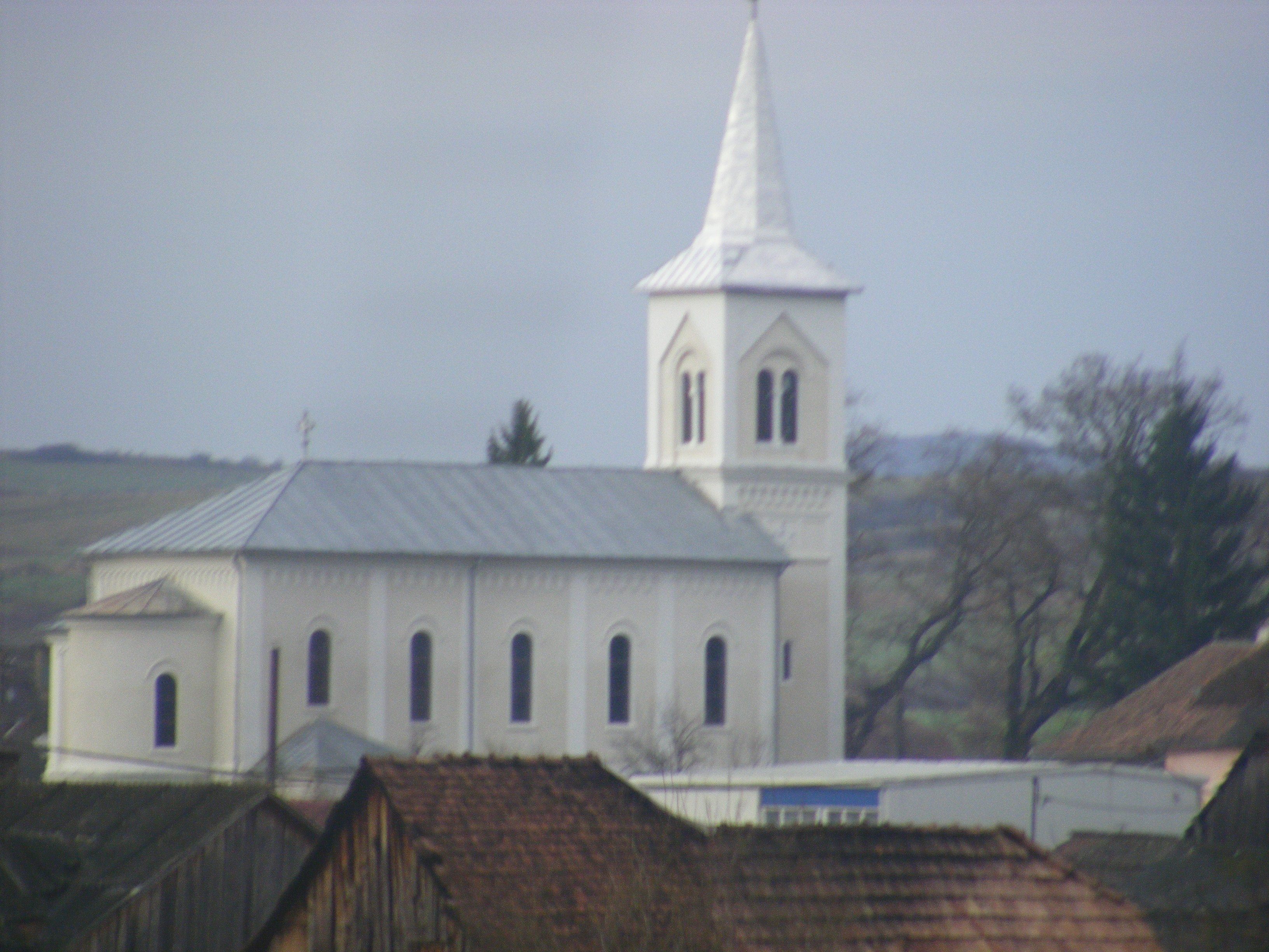 Ortodoxian church in Bilak (Domneşti), Bistriţa-Năsăud county.